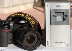 Photo © by Jeff Dean